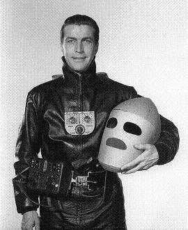 Publicity still from ZOMBIES OF THE STRATOSPHERE, showing Judd Holdren in the "rocketman" flying suit. In the writer's personal collection.